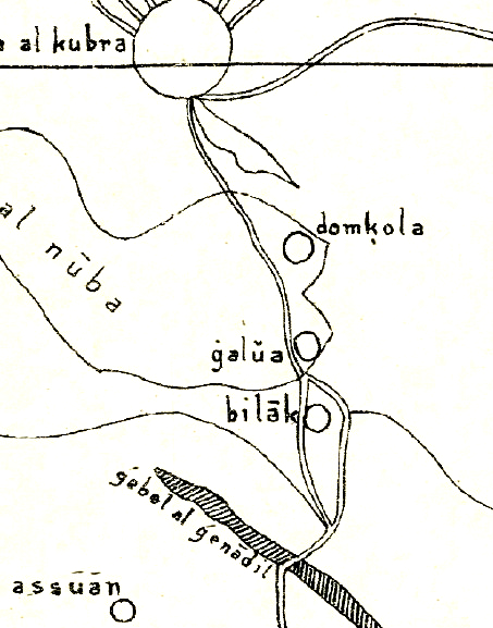 Nubia on al-Idrisi's small map (1192), which swaps north and south. The map contains several errors, like placing Makuria (domkola) south of Alodia (galua) or placing Philae (Bilak) in the area between the Nile and the Atbara river, although it should be located just south of Assuan. Further reading